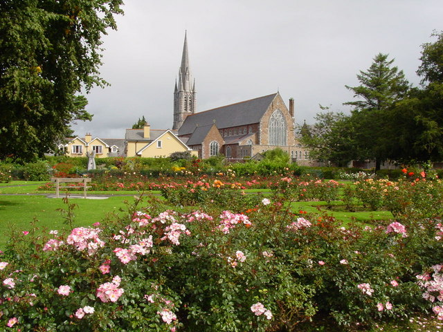 The Rose Garden , Town Park, Tralee This fine rose garden lies on the southern side of Tralee Town Centre.